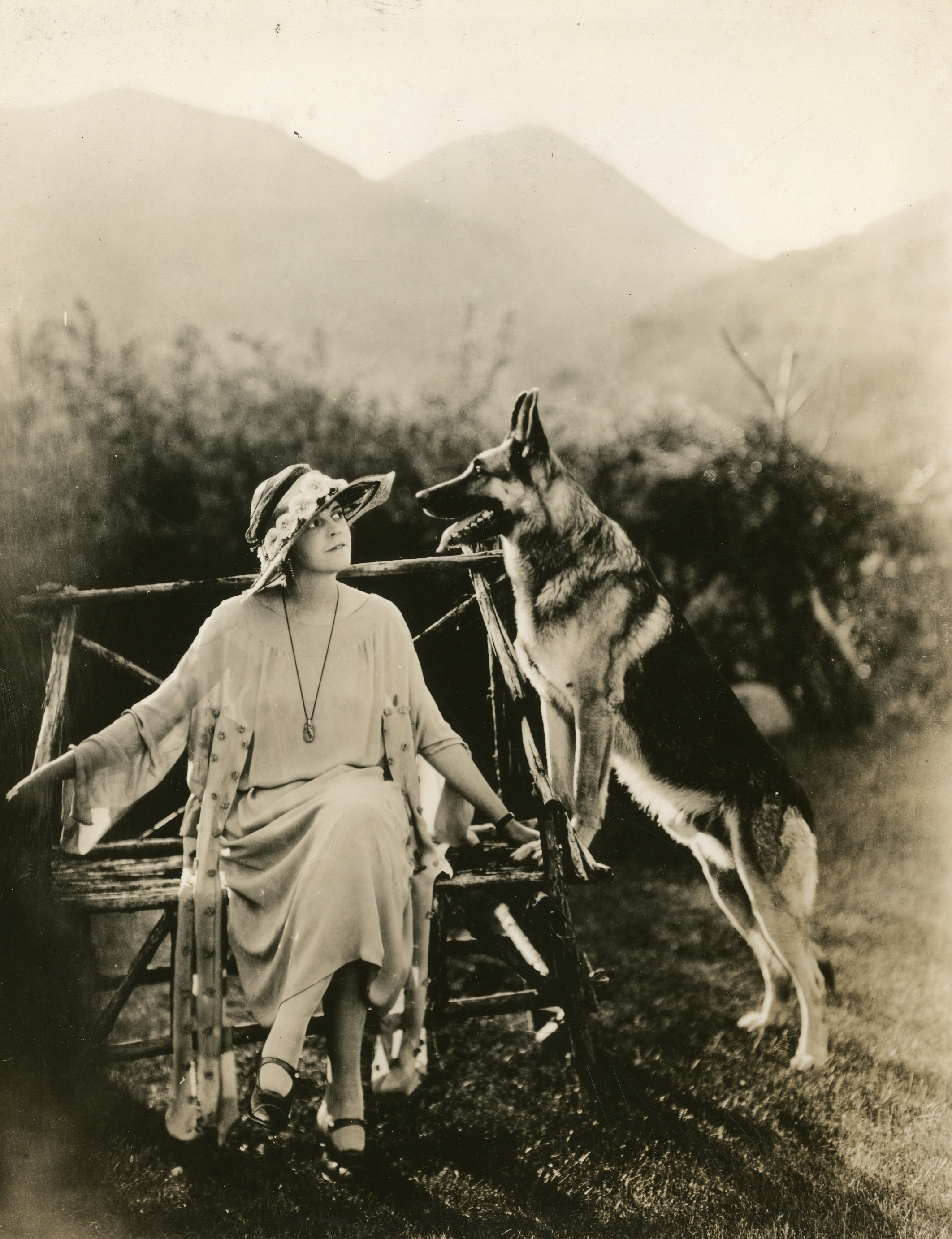 Photograph of screenwriter Jane Murfin with Strongheart.